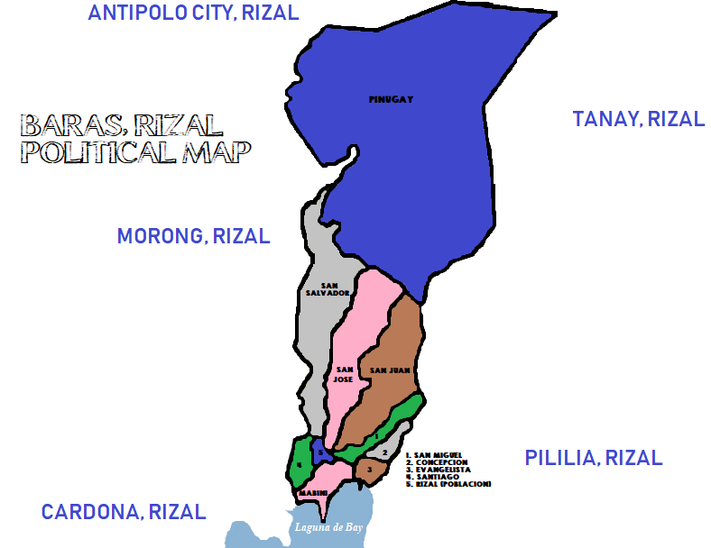 Clearly shows the barangays in Baras, Rizal and the adjacent cities/ municpalities in the area.